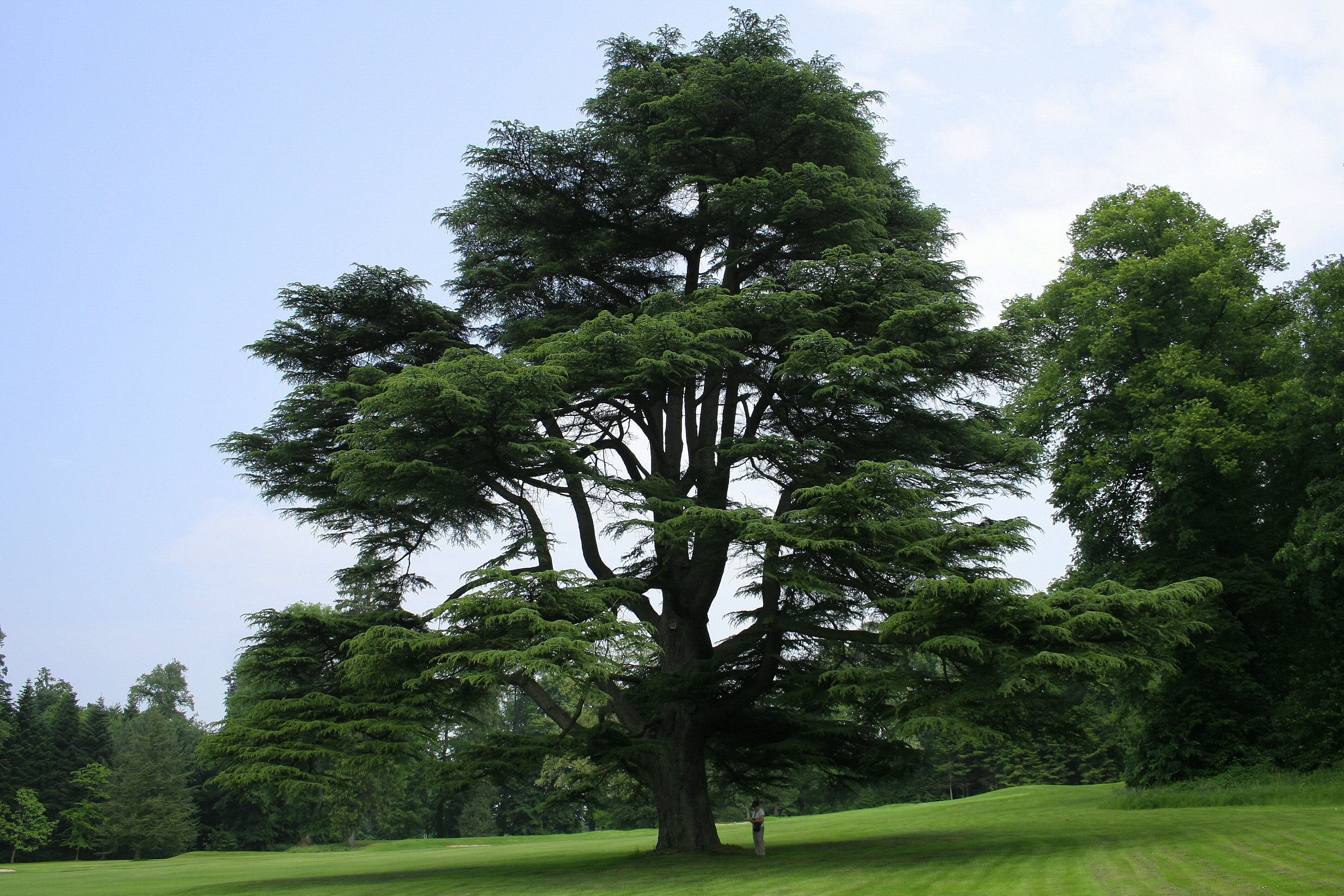 Lebanon Cedar.